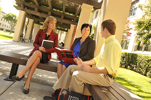 Dean Lisa Kloppenberg with law students.